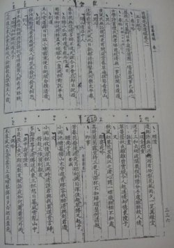 workbook of Sungam Kim Hyowon